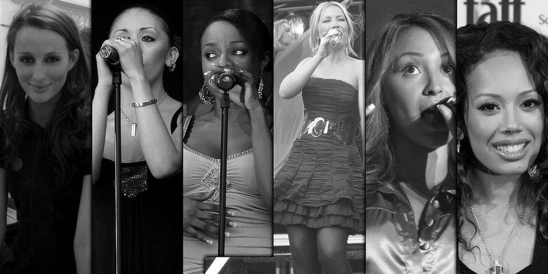 These are all the members of the English girl group the Sugababes, past and present.